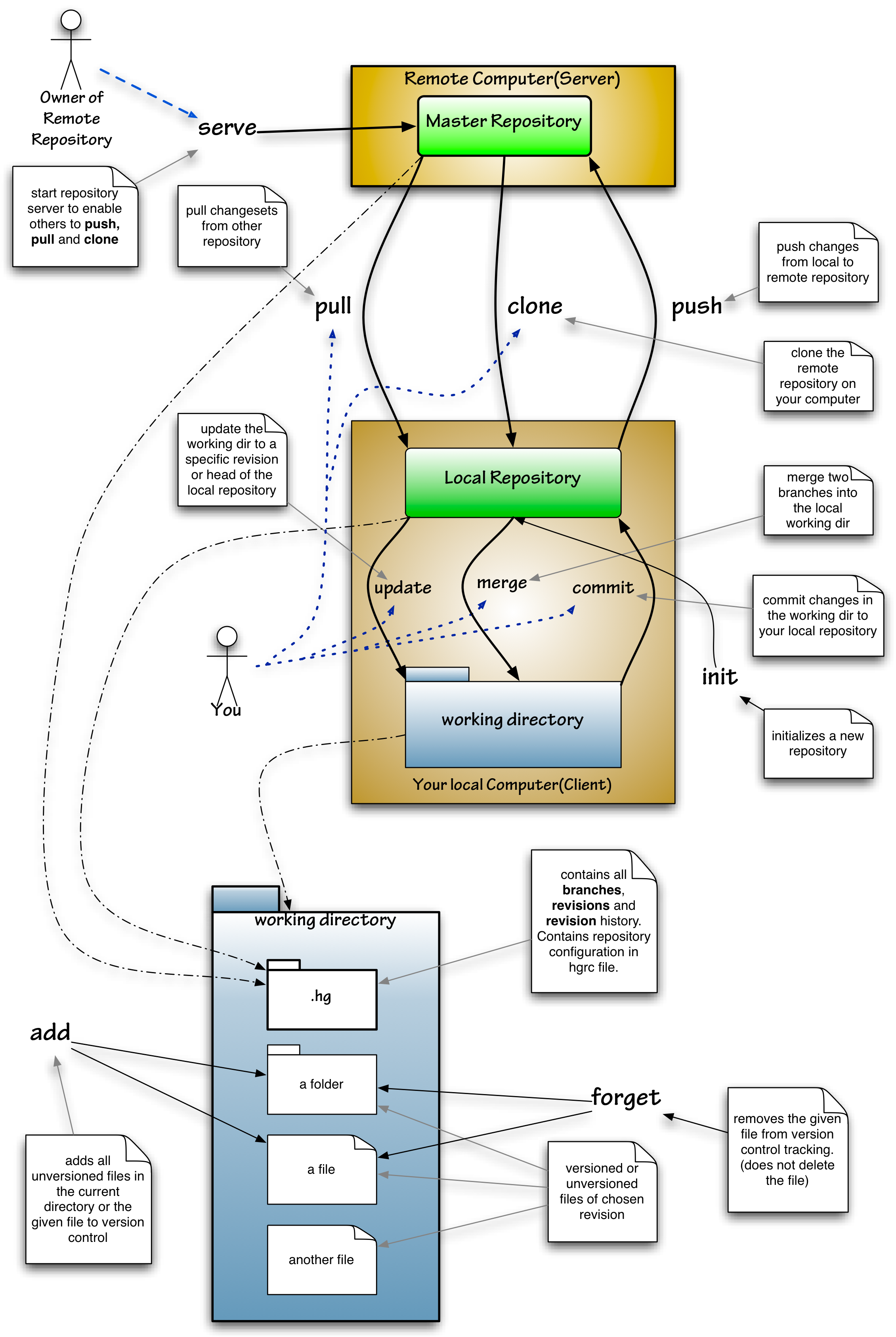 Mercurial commands and their relations.